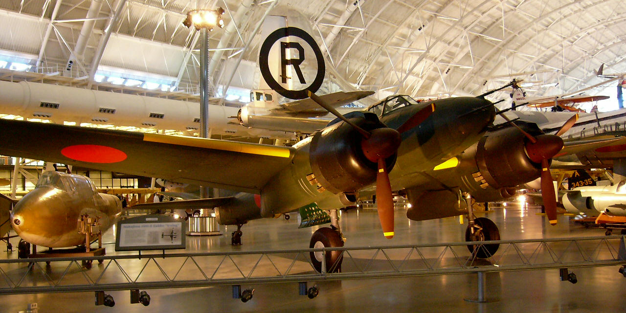 Nakajima J1N "Gekko" at Steven F. Udvar-Hazy Center